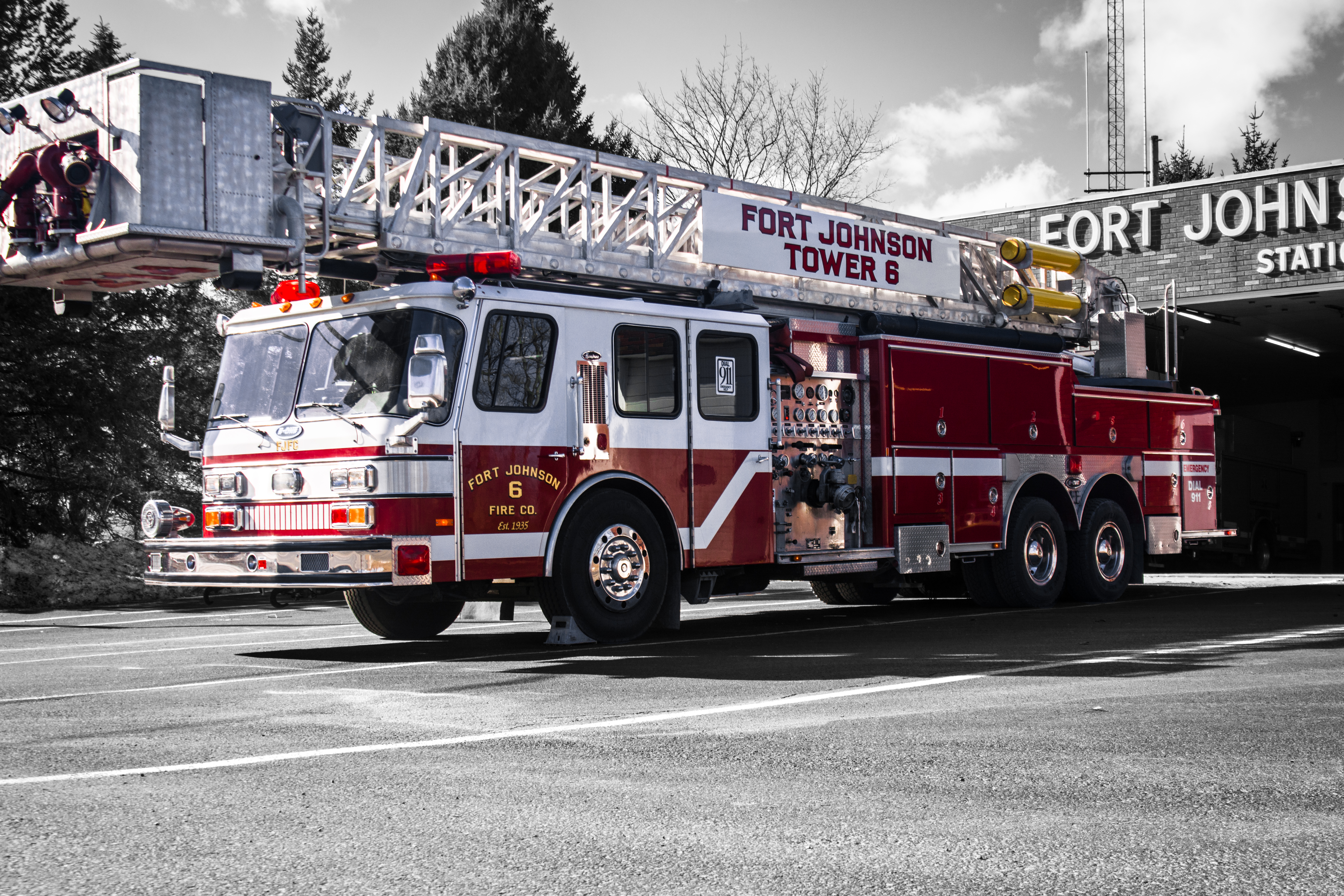 A tower for the Fort Johnson Fire Company.